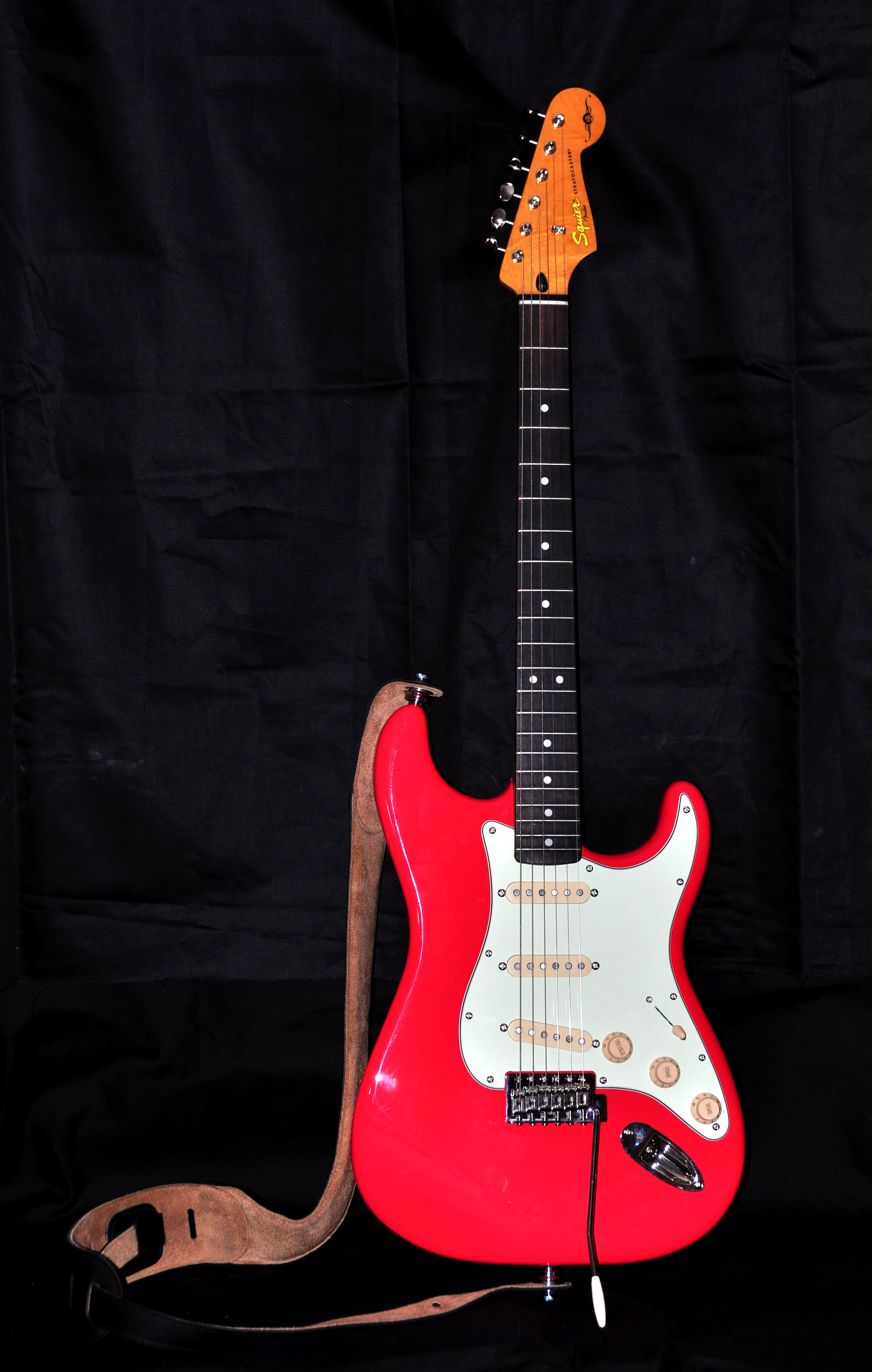 Squier Classic Vibe Simon Neil Stratocaster [1][2] from Flickr album "200907 My Guitars" by John Clift "My current collection of guitars - five of them are self-built"